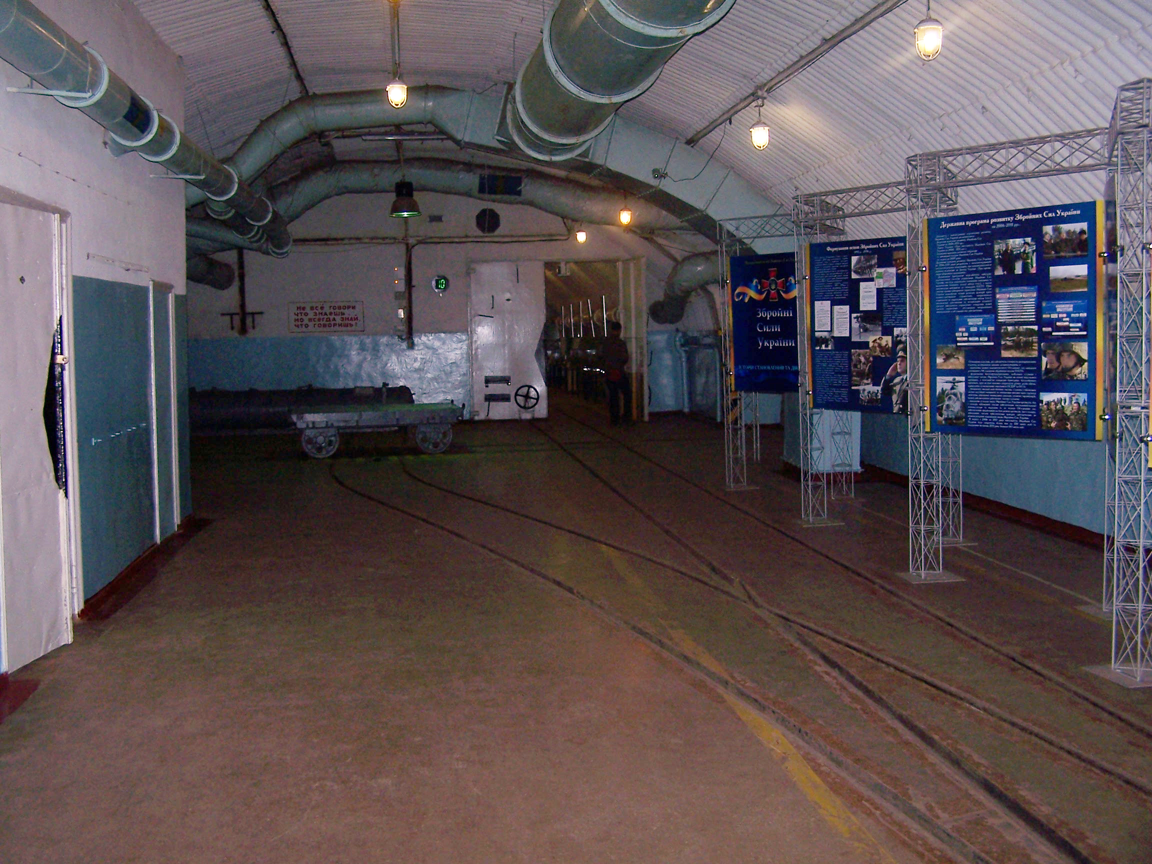 The Balaklava naval Museum (former anti-nuclear bunker for submarines). Exhibition in the former arsenal.